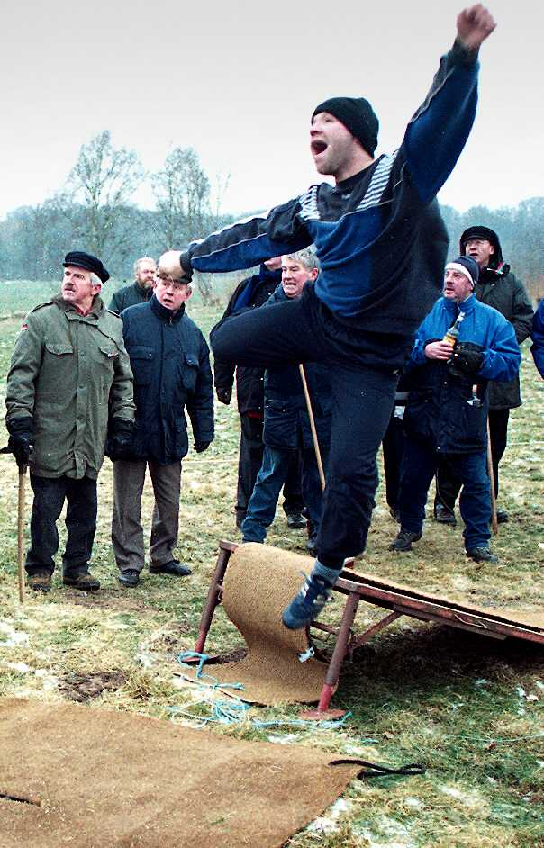 Klootschießer in field play